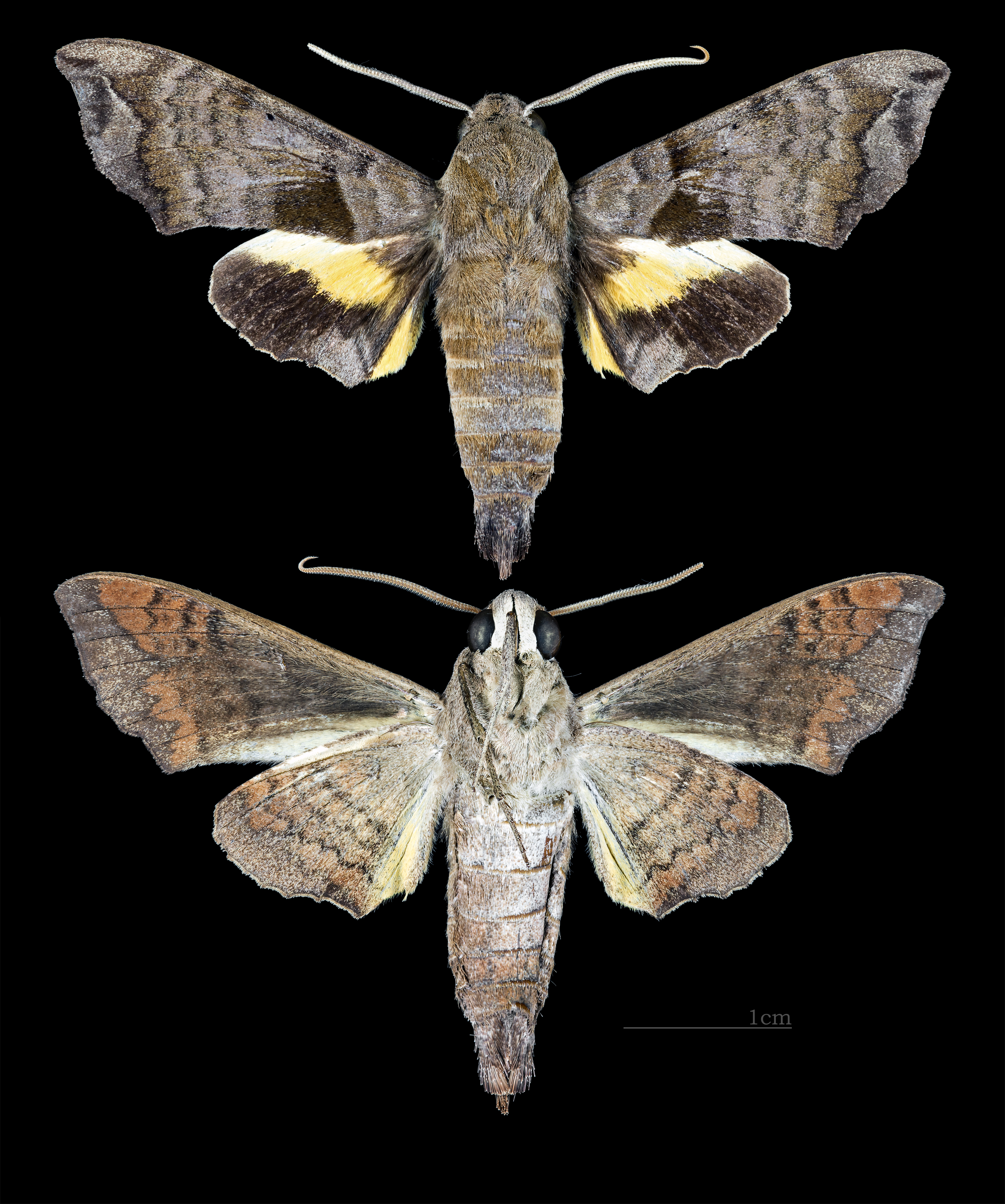 Perigonia ilus - Two views of same specimen Collection of the Mathematician Laurent Schwartz